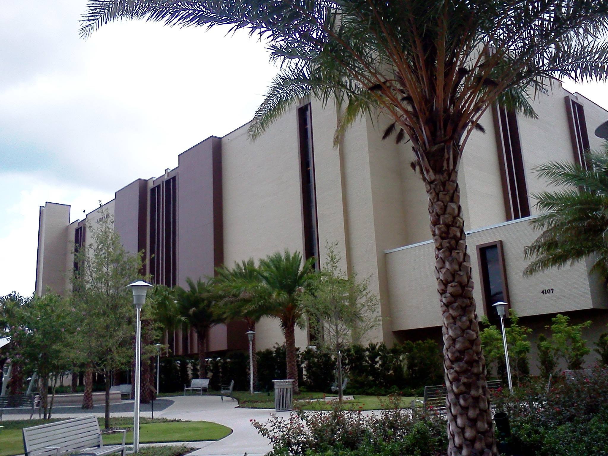 USF Library, north end